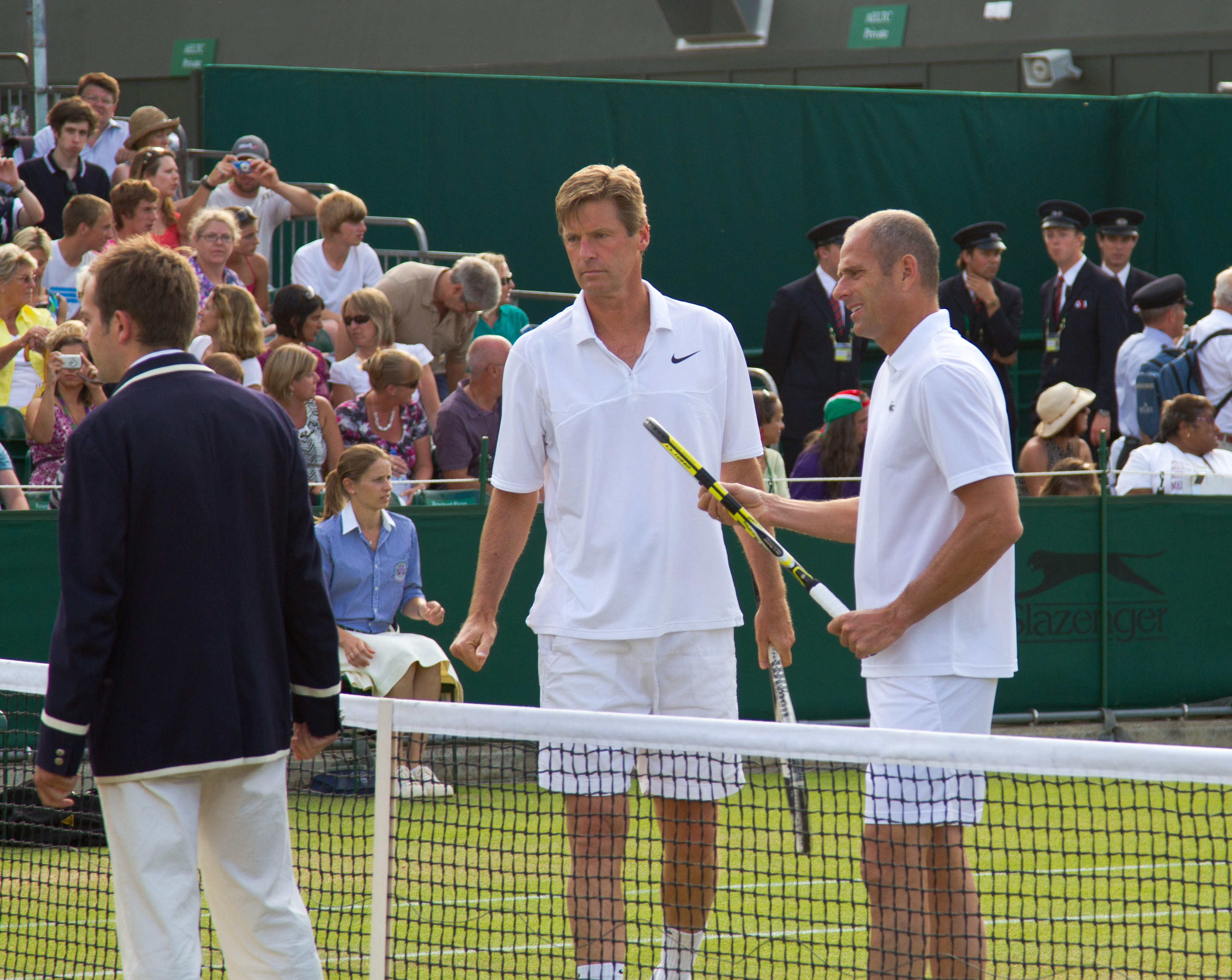 Peter Fleming and Guy Forget @ Wimbledon 2010 (They played against Mansour Bahrami and Henri Leconte)